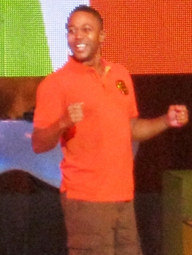 Thomas Hobson, as Shout of The Fresh Beat Band.